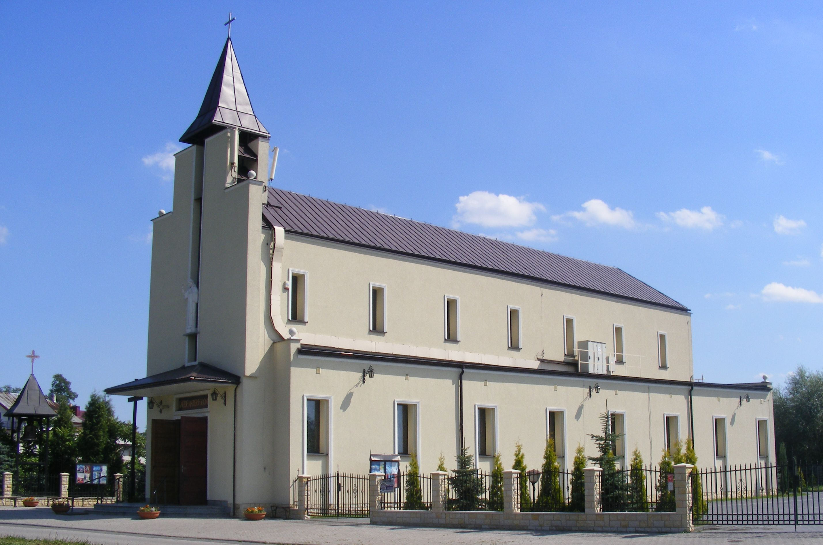 Church in Tonie